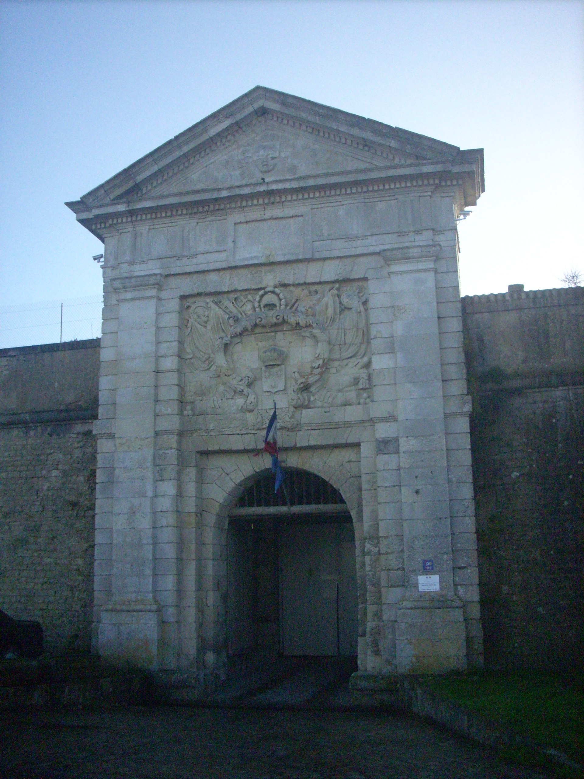 citadel gate in Saint-Martin, Ile de Ré, Charente-Maritime, France